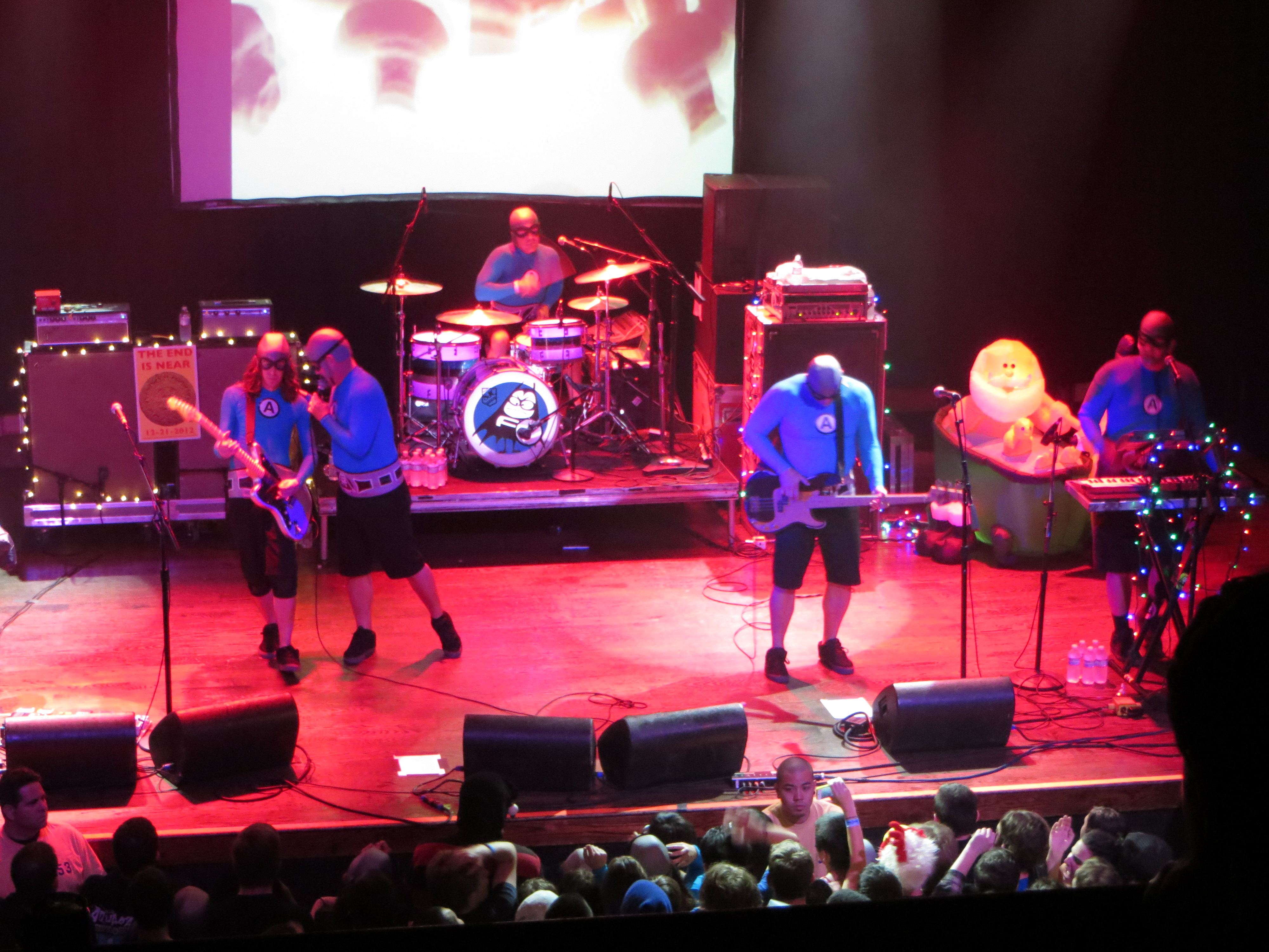 The Aquabats! At The HOB Anaheim 12/13/12